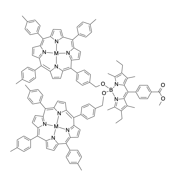 Chemical structure of Boron porphyrins johbrbr